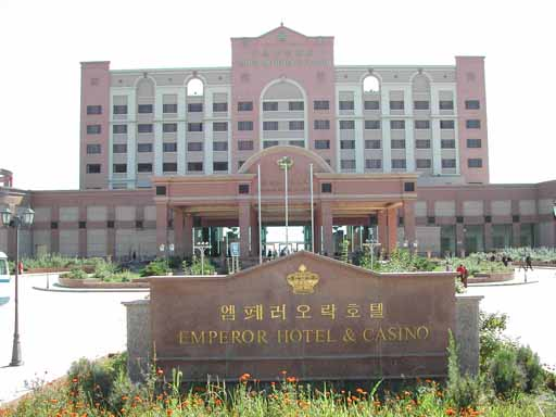 Imperial Hotel and Casino in Rajin, DPRK. Part of the Rajin-Sonbong (also known as Rason following a 2004 administrative reorganization by central authorities) Special Economic Zone and was envisioned to be a $180 million dollar seaside resort. Built under questionable dealings with a southern Chinese business, the Casino Hotel saw brisk use until 2004, as a Chinese casino tourist destination until a Chinese government crackdown on visitors sharply reduced business. The Hotel is open and fully staffed. Amenities include British Telephone in the Grand Lobby, a daily buffet with view of the sea and port in Rajin. Is in a remote area near the far northeastern tip of the Korean peninsula bordering Jilin province of China and Primorsky Krai of Russia. Taken in September 2003.